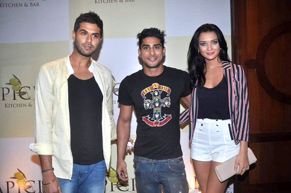 Launch of Apicius Kitchen & Bar